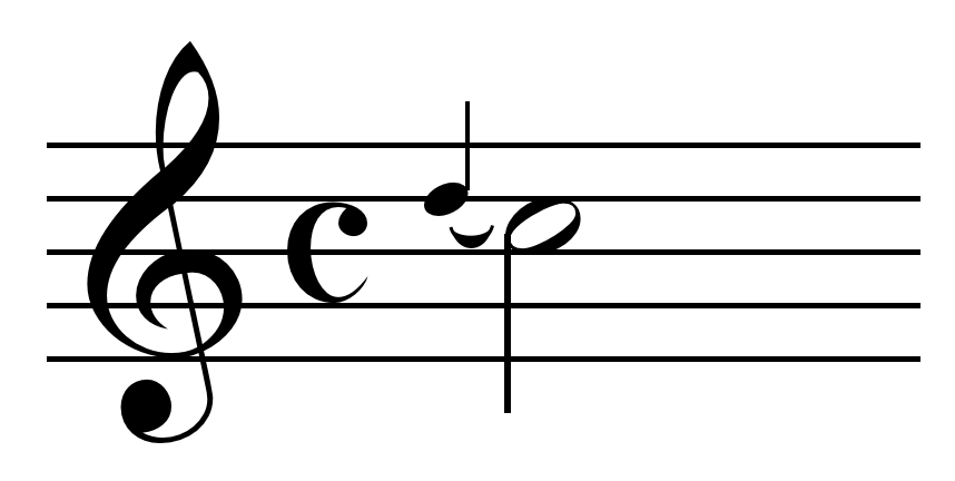 An appoggiatura (see ornament) as notated.